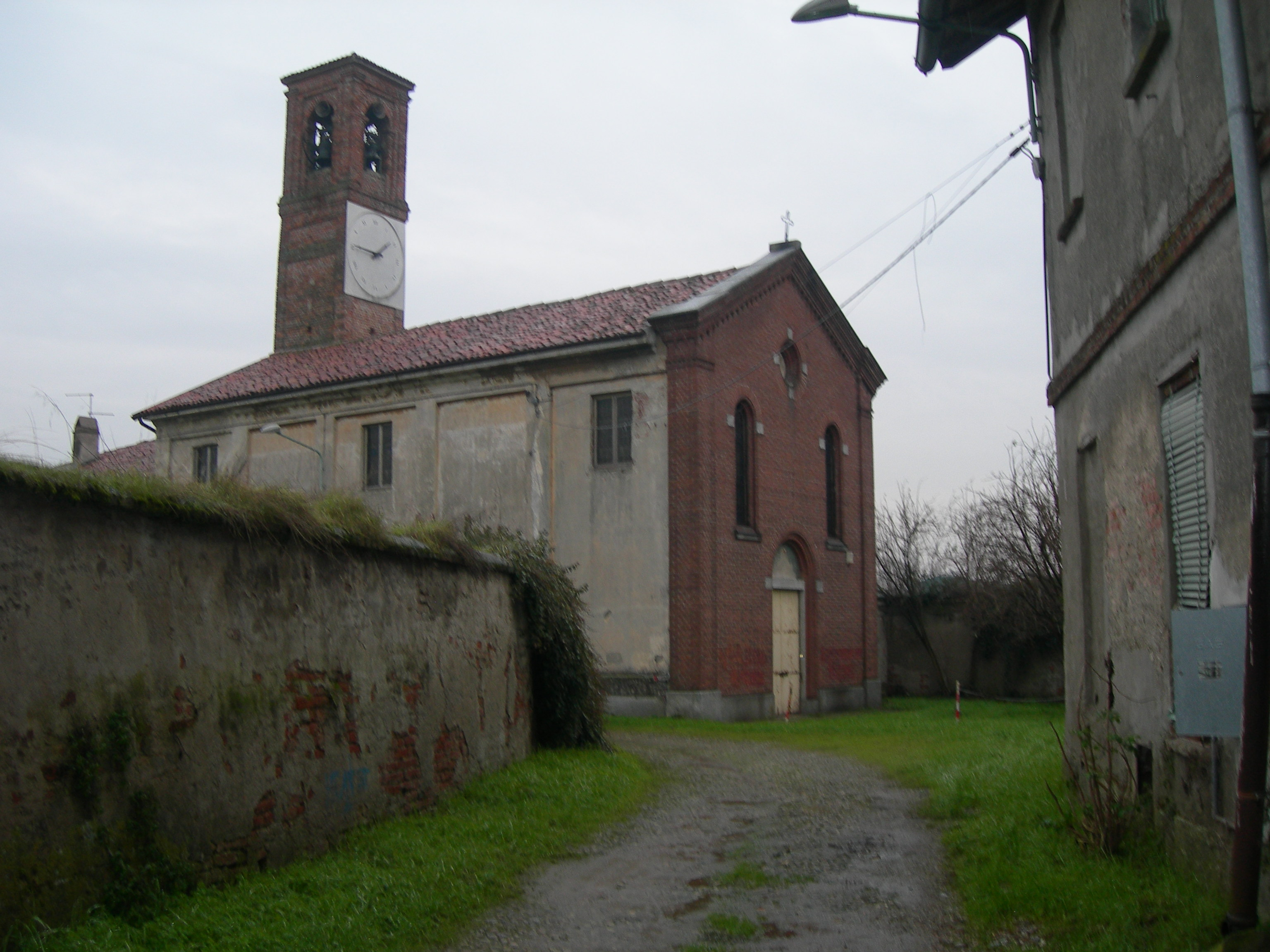 church of San Rocco